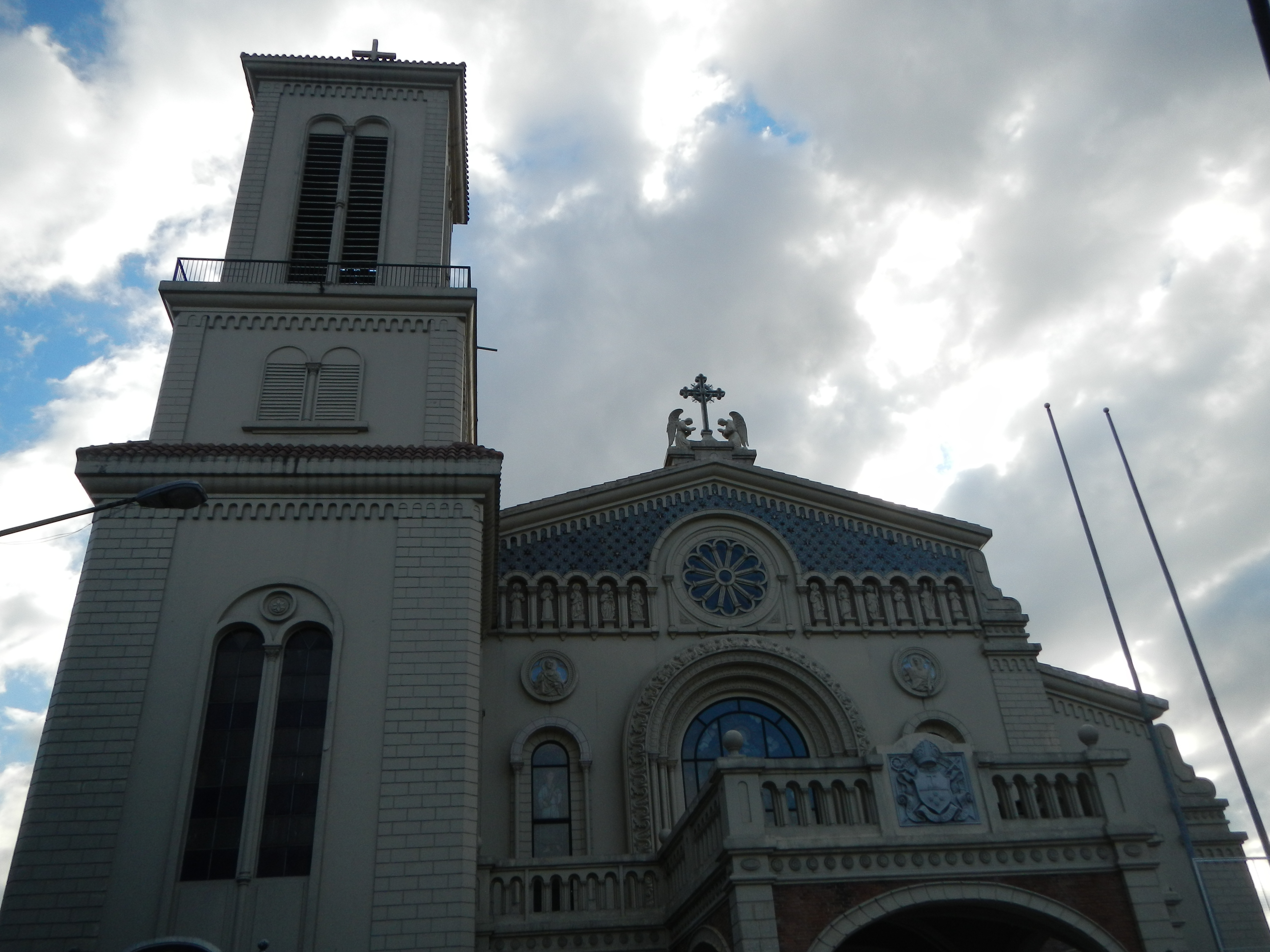 Cubao Cathedral[1], formally known as the Immaculate Conception Cathedral of , is a Roman Catholic church located in Quezon City, Metro Manila, the Philippines. It is the cathedral of the Roman Catholic Bishop of Cubao [2]. It was built in 1950 by the Society of the Divine Word, belonging to them until 1990 when the Archdiocese of Manila took over its administration. In 2003, it became the cathedral when the Diocese of Cubao was erected. The present rector of the cathedral is Rev. Fr. Ariston L. Sison, Jr., SCSL.[3]